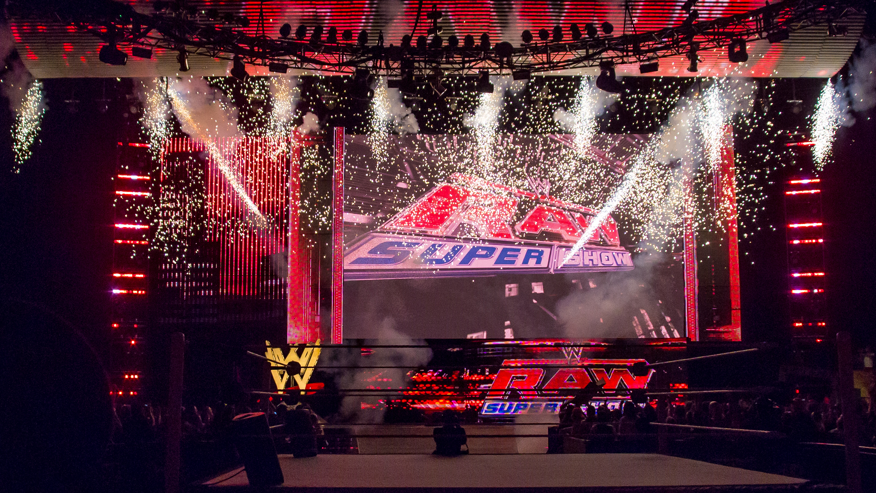 WWE Raw, Miami, 2 April 2012